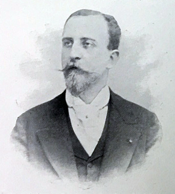 Photo of Jules Cottin, a French mandolinist, from Samuel Adelstein's (c. 1901) book, "Mandolin Memories."